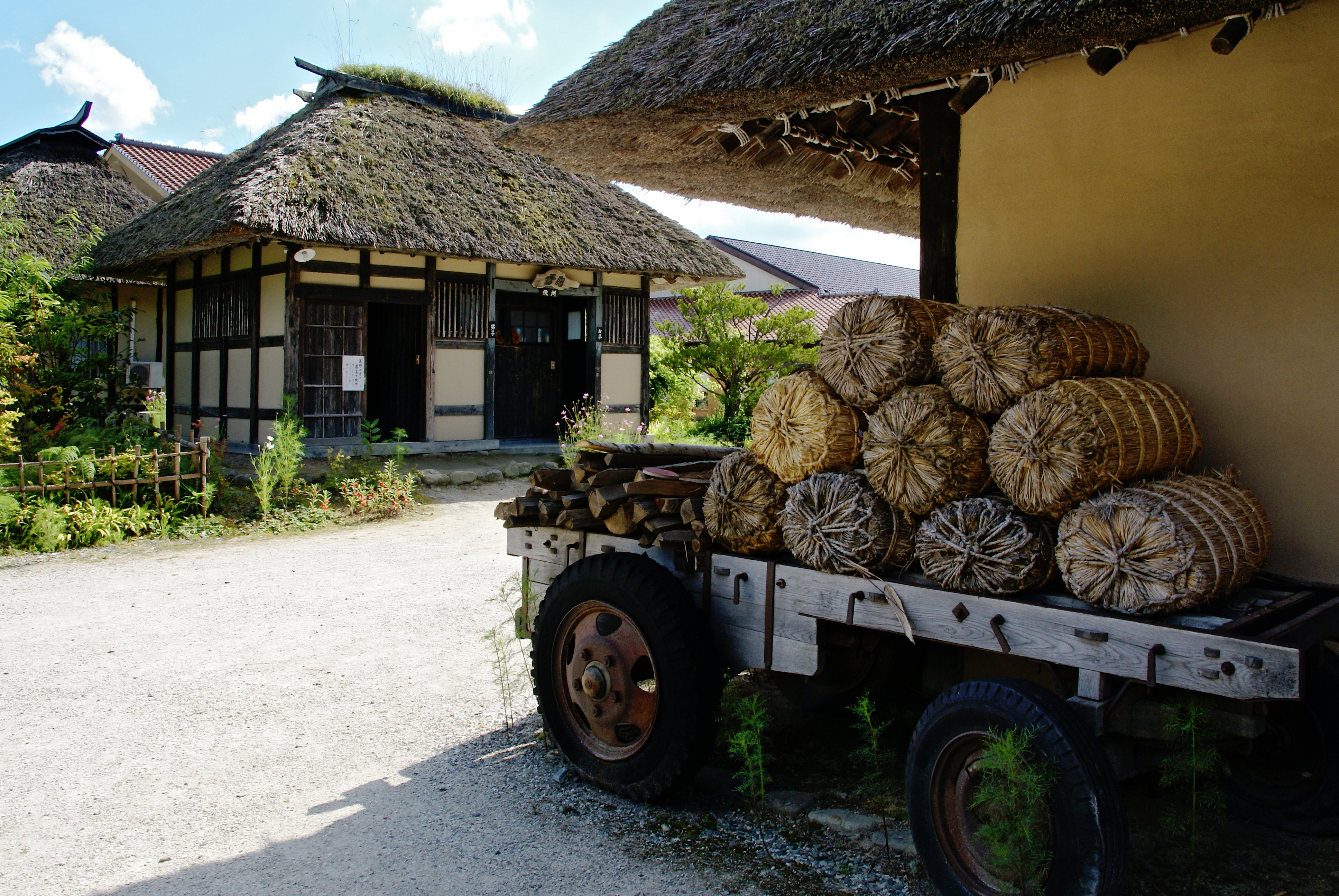 Denshoen in Tono, Iwate prefecture, Japan